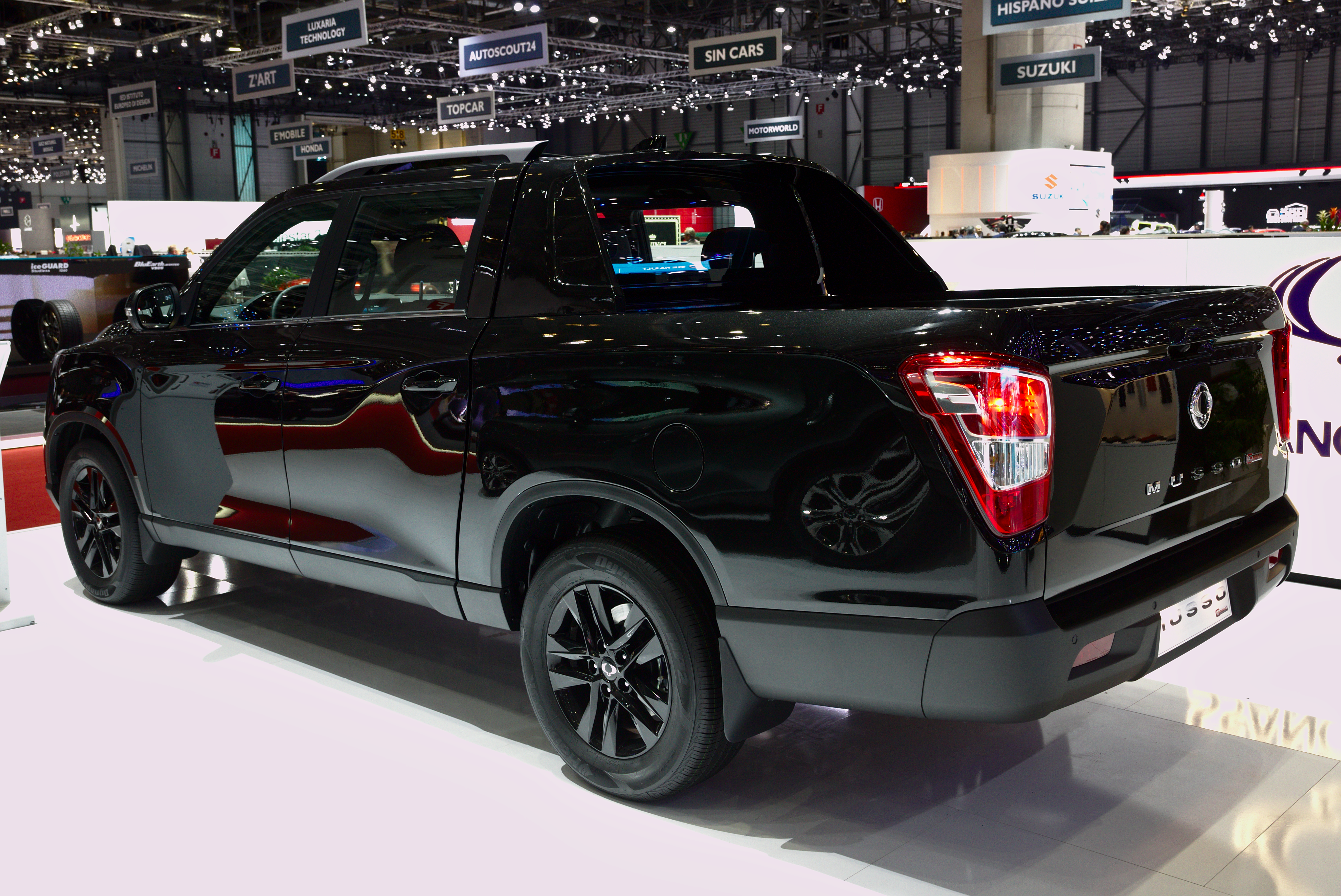 SsangYong Musso at Geneva Motor Show 2019